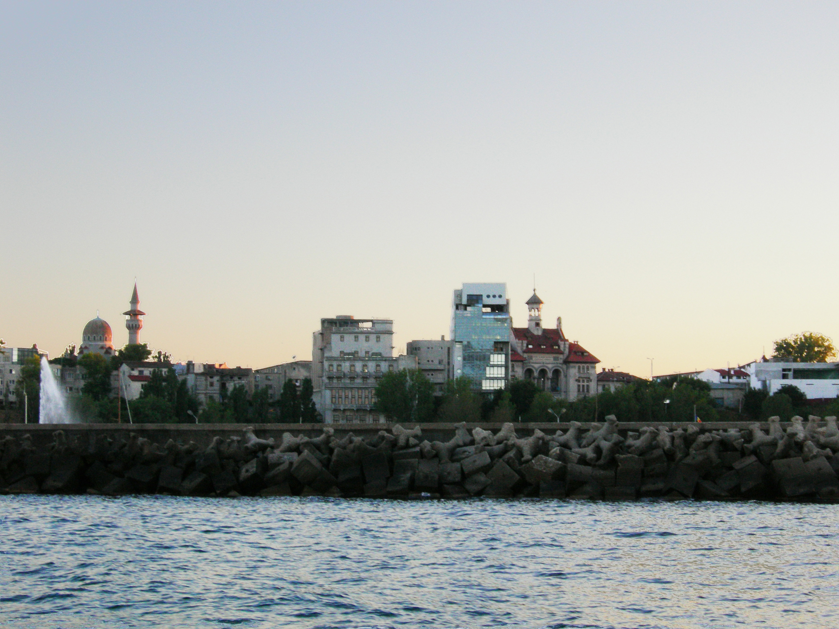 picture taken by me.